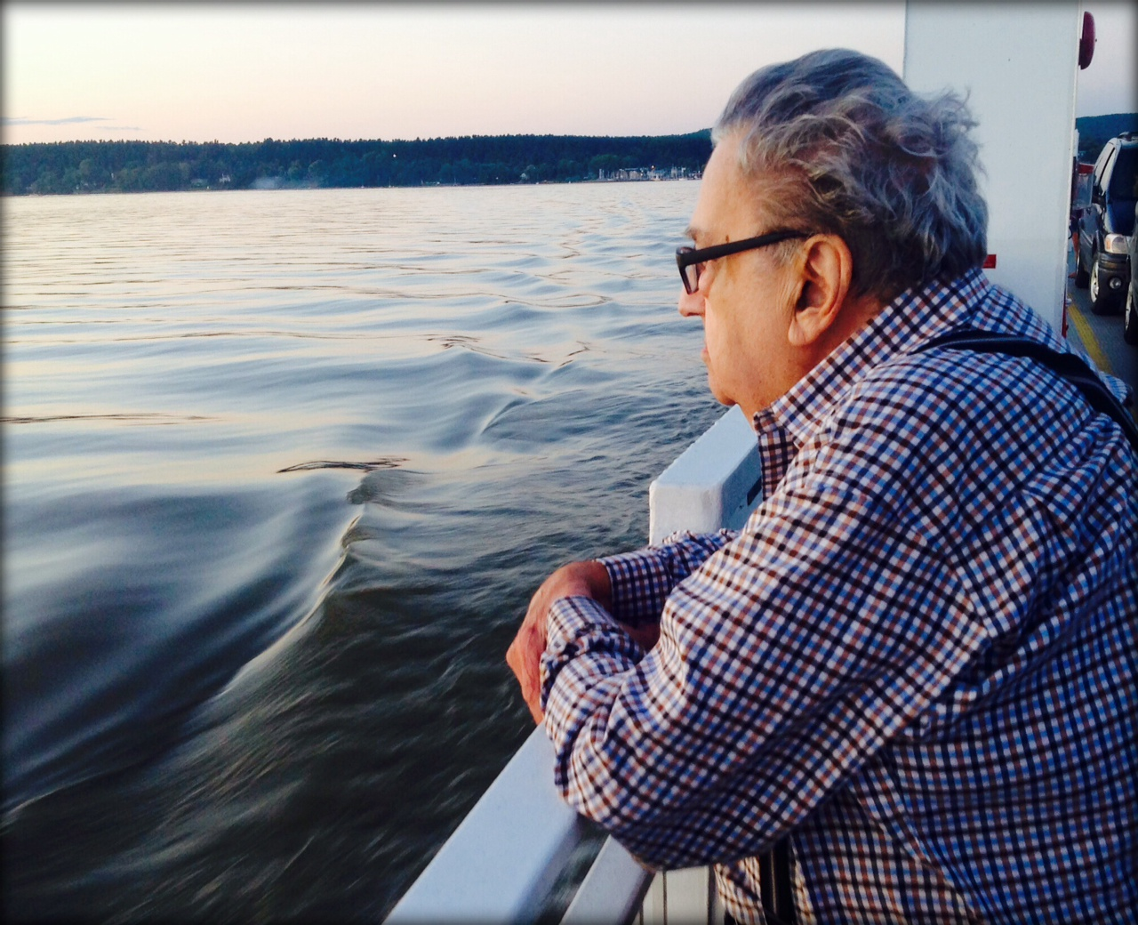 Luc Chicoine a Oka